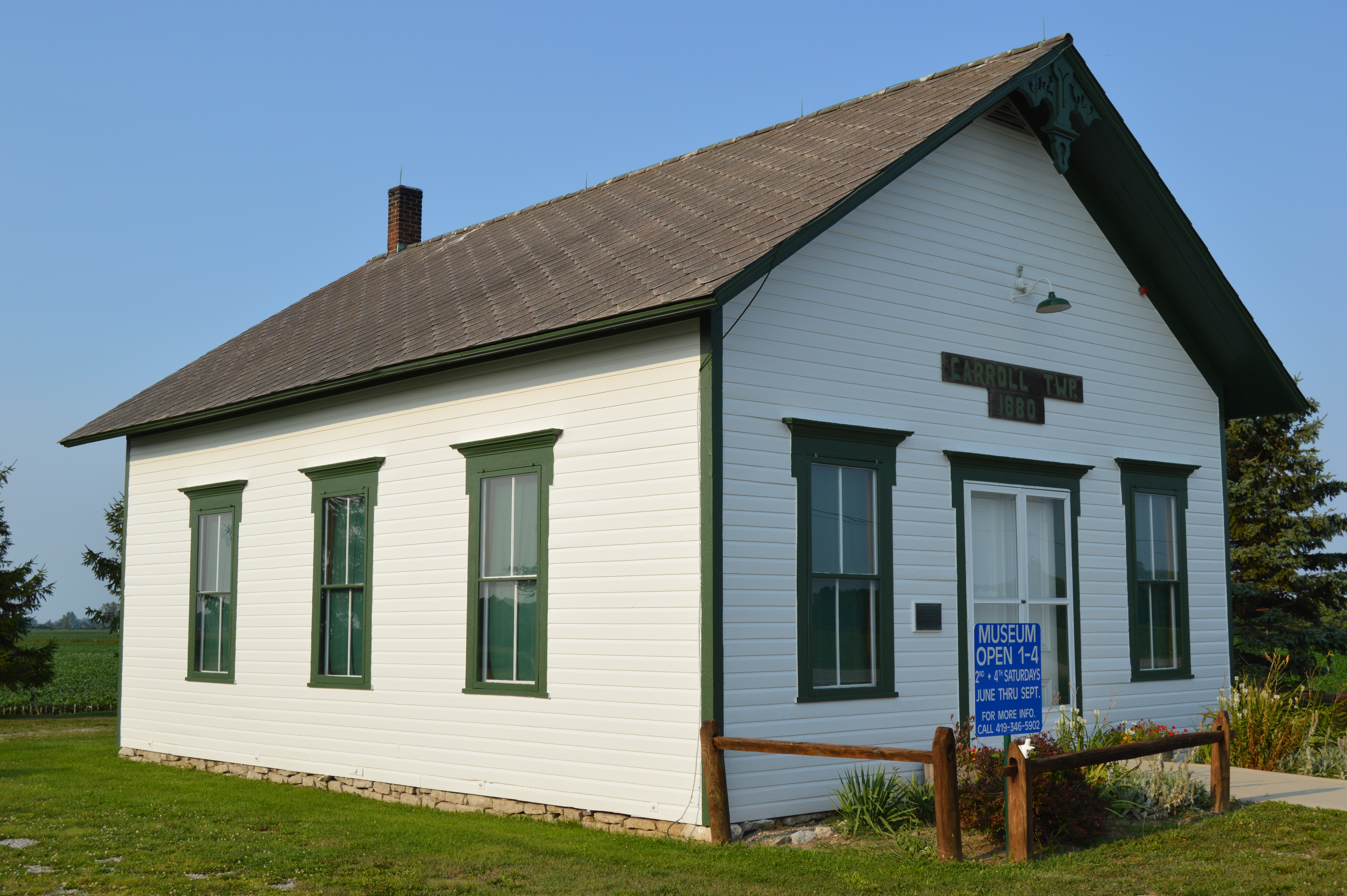 Front and western side of the Carroll Township Hall, located on the northeastern corner of the junction of Behlman and Toussaint East Roads north of Oak Harbor in Carroll Township, Ottawa County, Ohio, United States. Built in 1880, it is listed on the National Register of Historic Places.